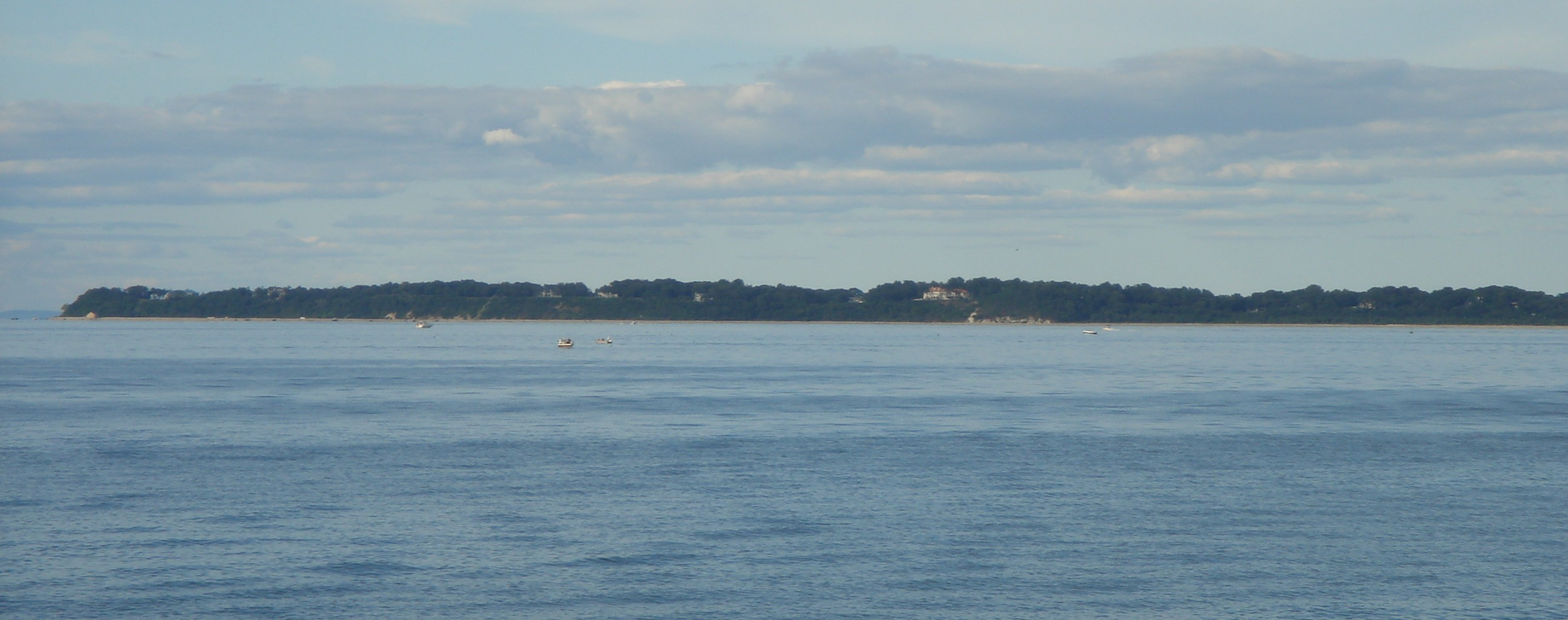 Cape Crane Neck in Old Field, Long Island. Seen from Long Beach, Nissequogue.